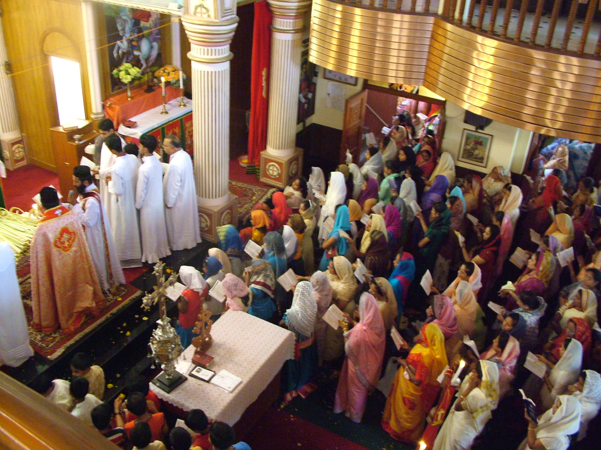 Women in Bombay Syrian Orthodox Church on Palm Sunday